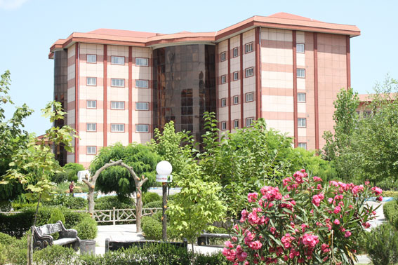 pezeshkisari